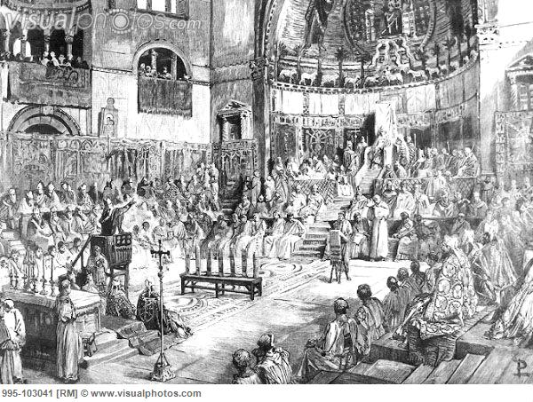 Pope Innocent III preaches the Fifth Crusade at the Fourth Lateran council 1215